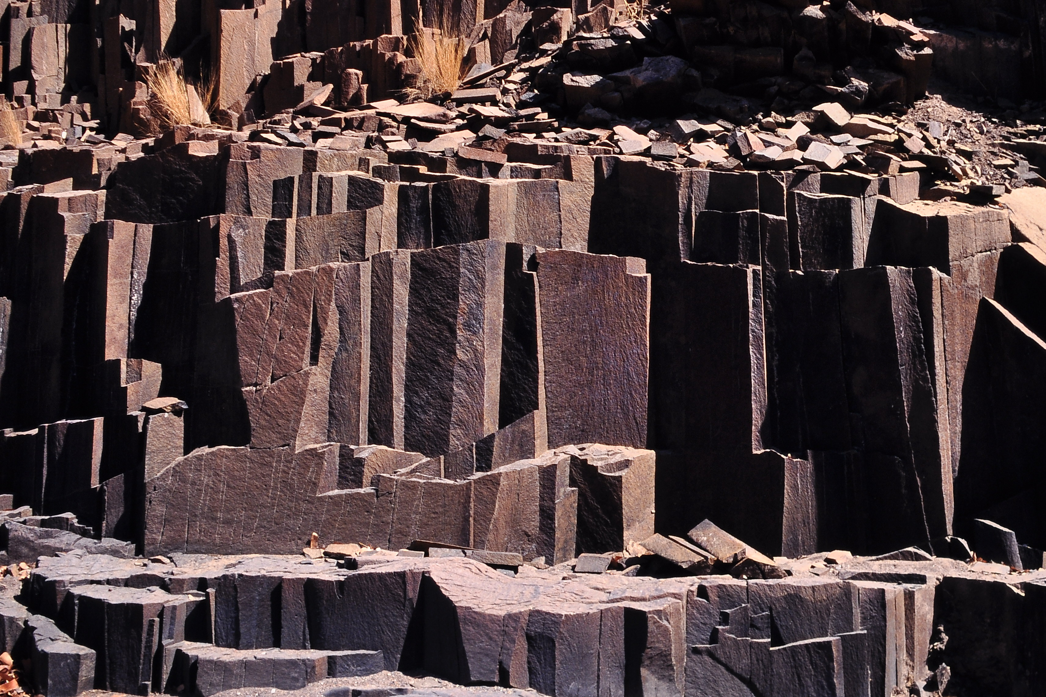 Basalt structures in Namibia